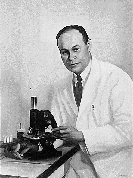 Portrait of Charles R. Drew, painted by Betsy Graves Reyneau No restrictions on the image